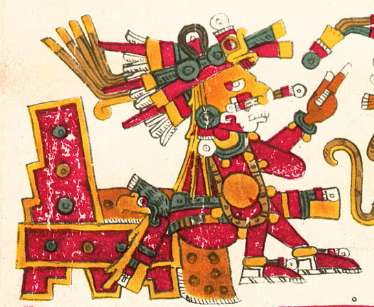 God Xochipilli, described in the Codex Borgia.